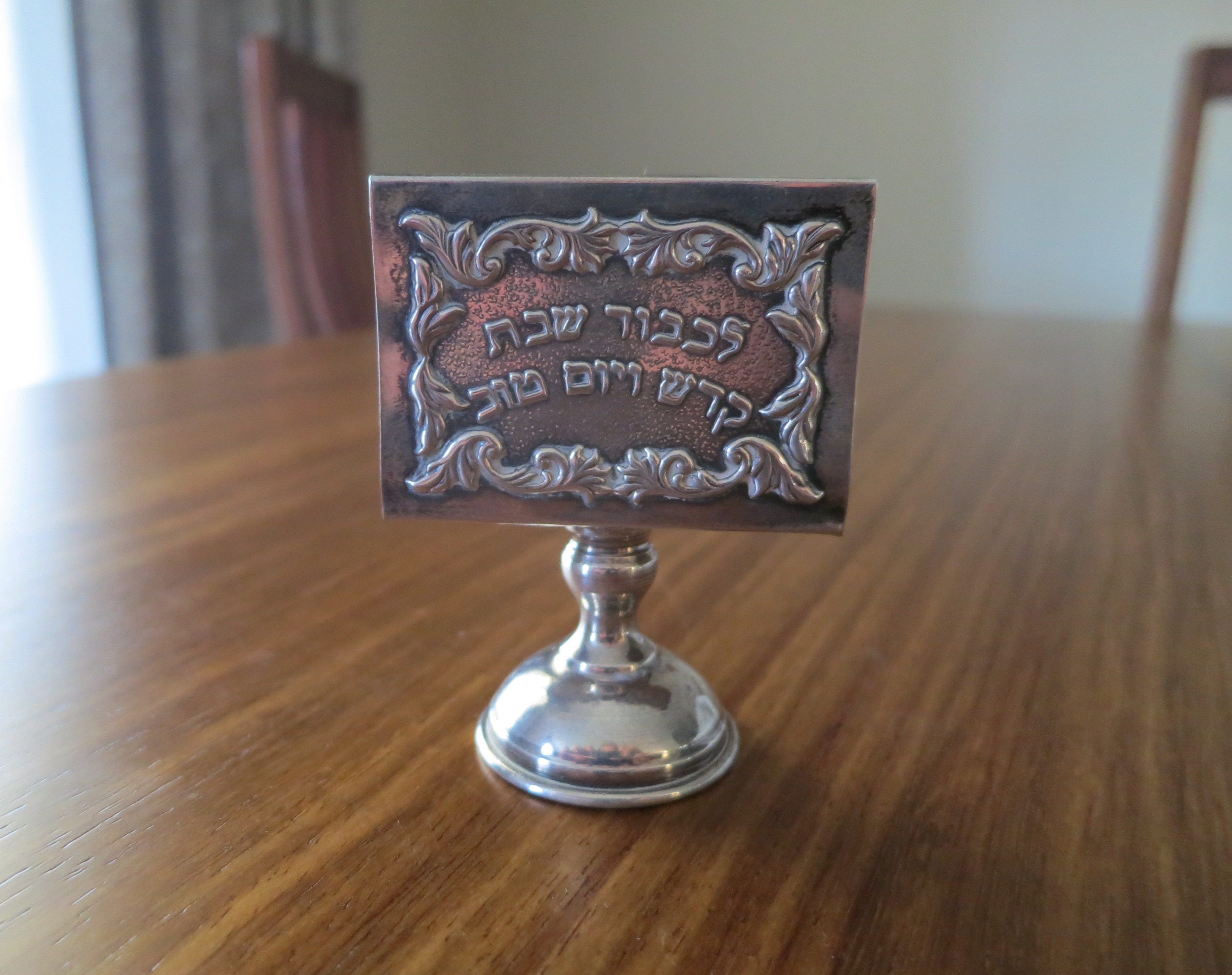 Silver match box holder for Shabbat